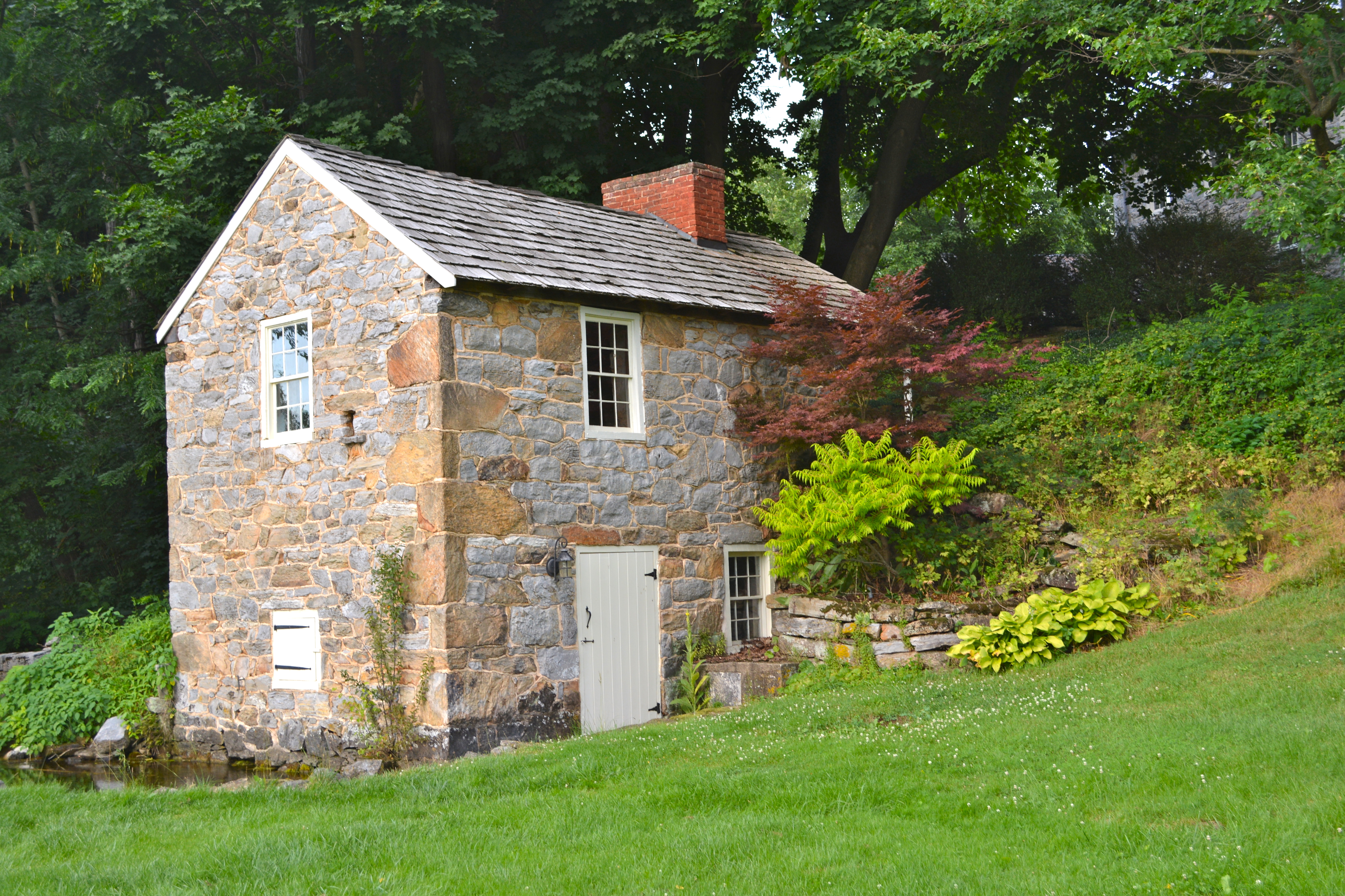 Brotherton Hall, west of Chambersburg, Franklin County, Pennsylvania on Falling Spring Road, Guilford Township. Built c. 1820 in the Federal style, Listed on the NRHP in 1979 Springhouse west of house